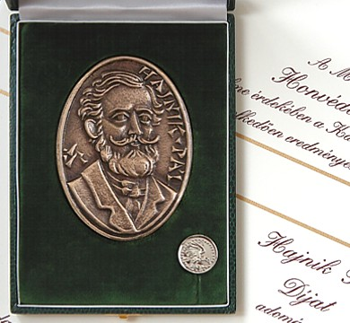 Pál Hajnik prize